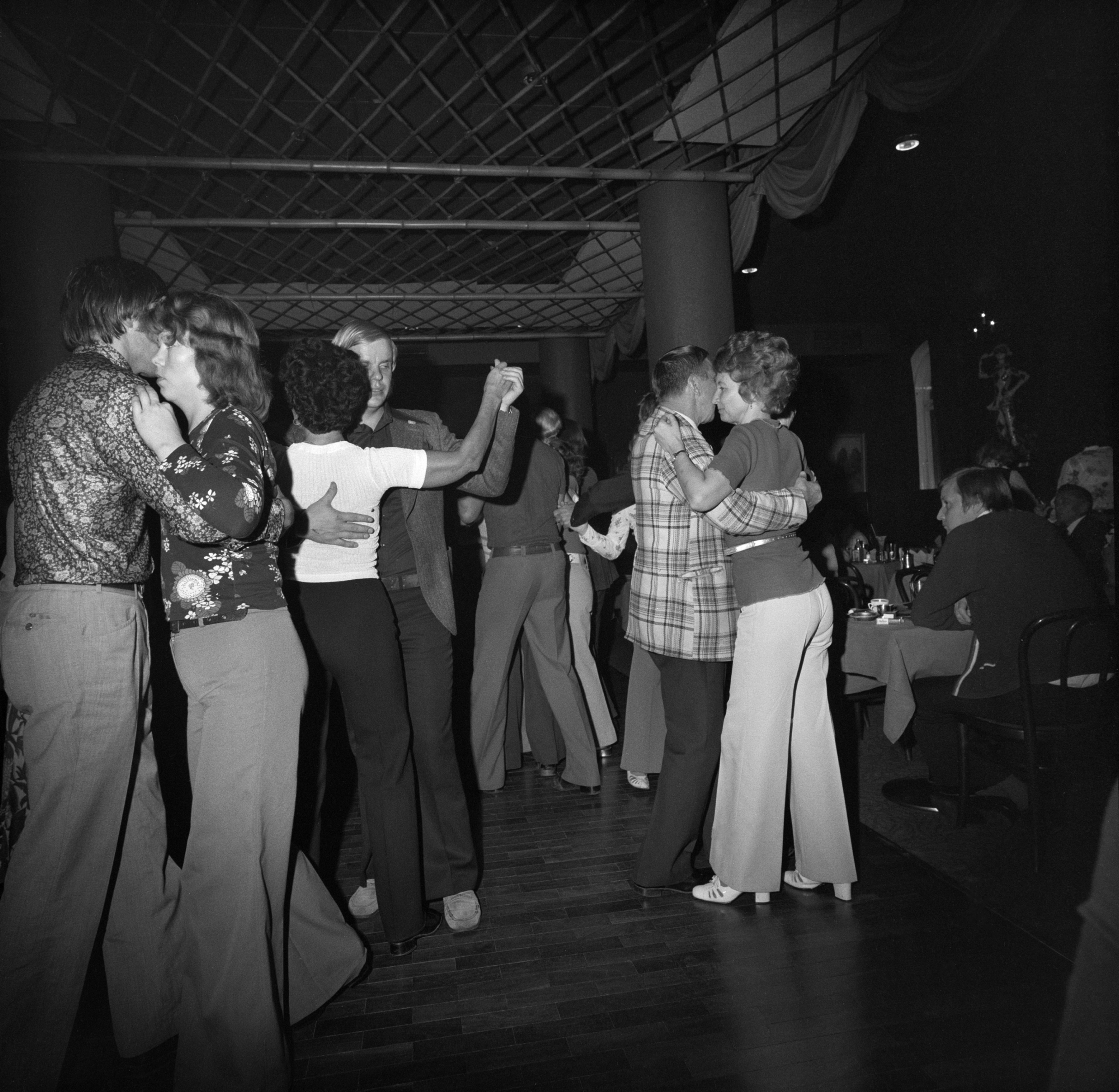 Scene from working-class restaurant Tenho, Helsinginkatu 15, Kallio, Helsinki.